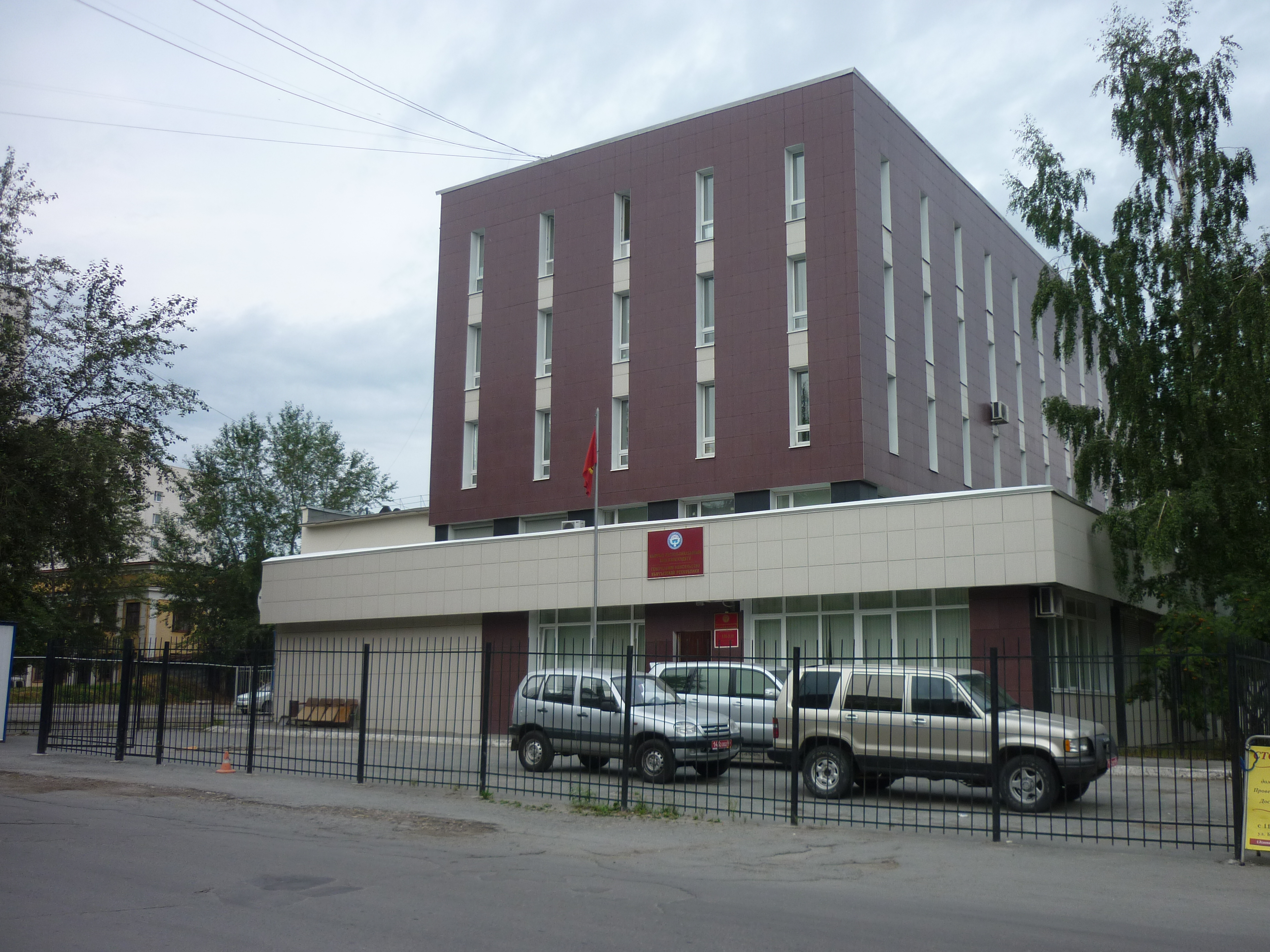 Kyrgyz Republic consulate in Yekaterinburg 2012